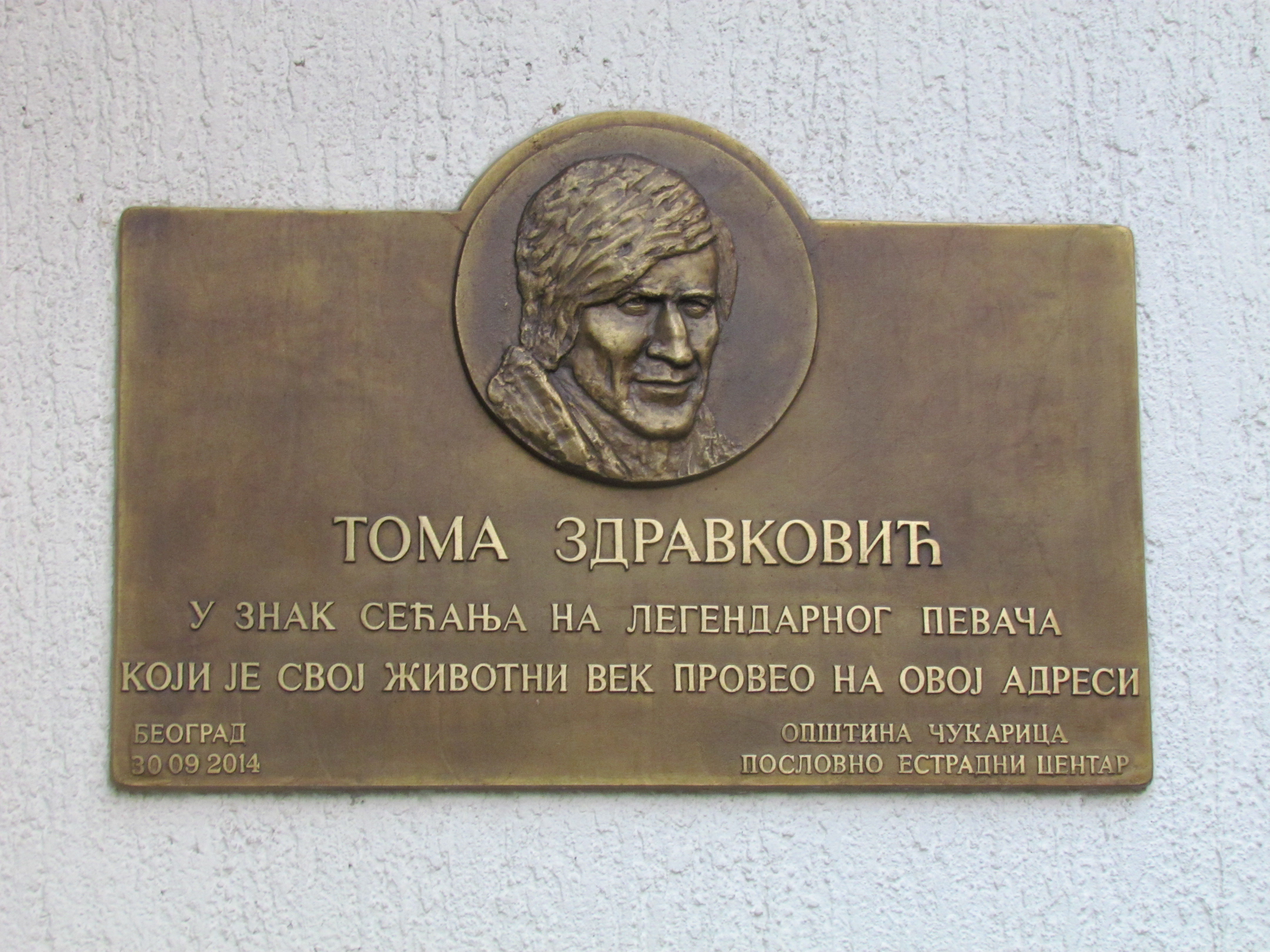 Memory plate in Zdravkovic's inhabitancy